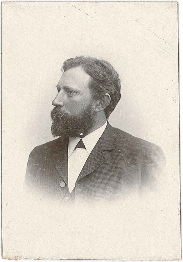 David Bergendal (1855-1908), Swedish professor of zoology at the University of Lund.